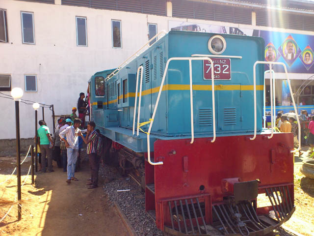 A narrow gauge railway locomotive which was used in Sri Lanka